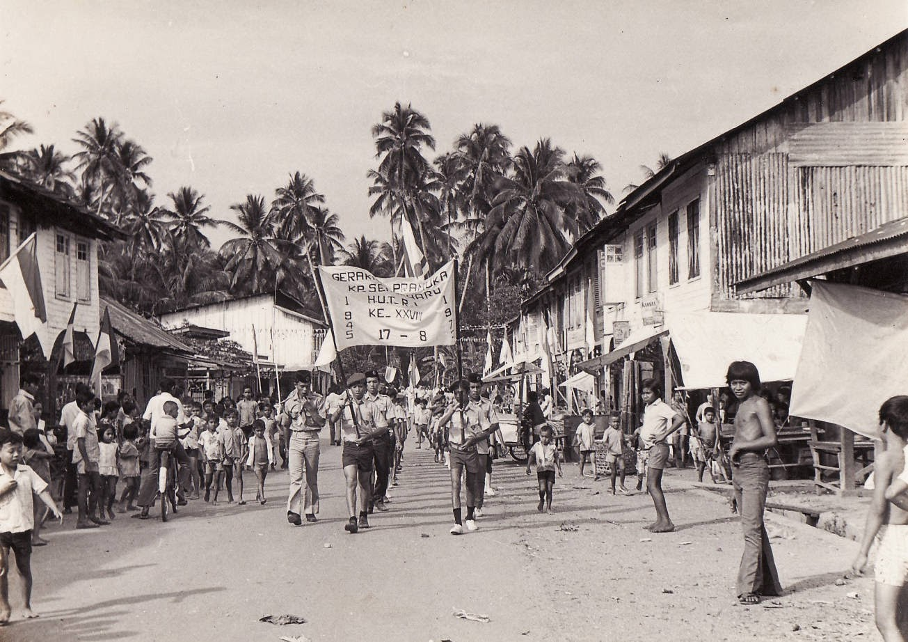 Hamparan perak tempo dulu